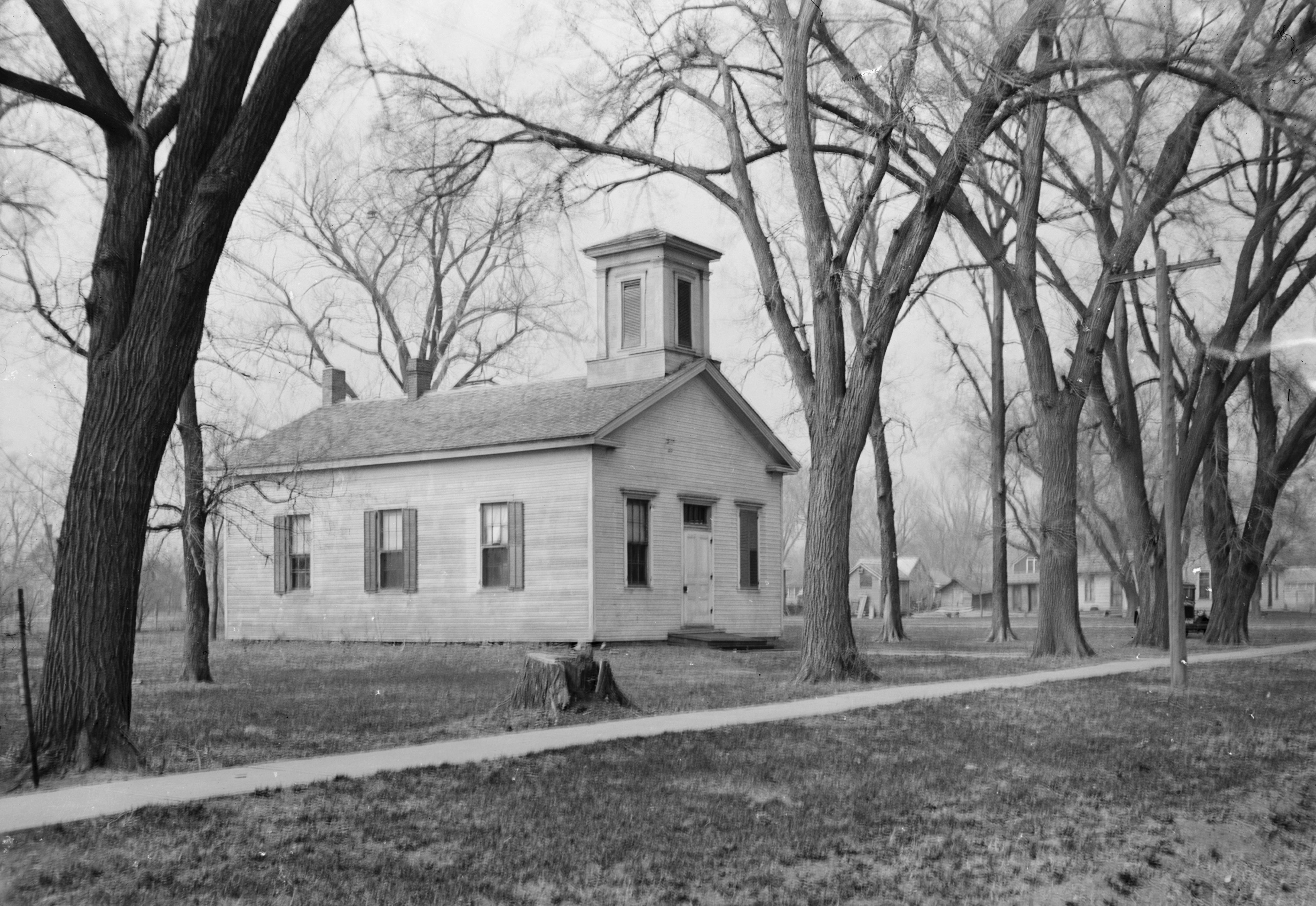 Front and side of Emmanuel Lutheran Church, located at 1500 Hickory Street in Dakota City, Nebraska, United States. Built in 1860, it is listed on the National Register of Historic Places.